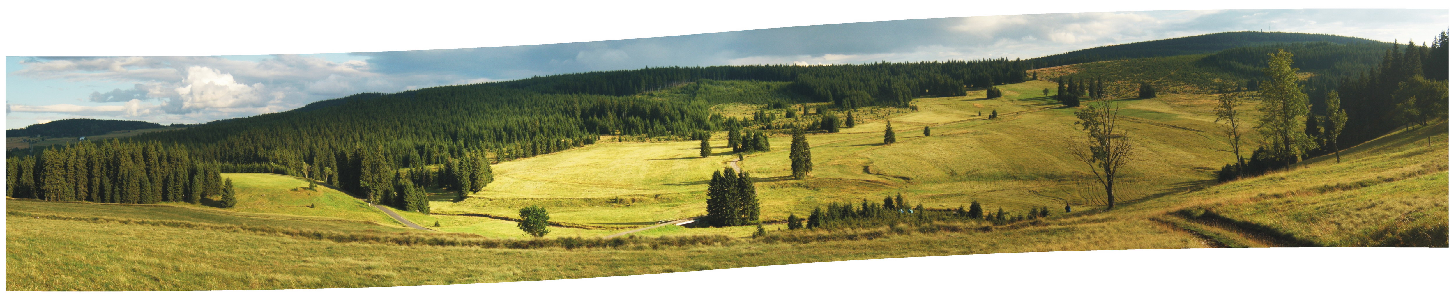 The romantic valley of the Černá (Schwarzwasser), between Ryžovna (Seifen) and Potůčky (Breitenbach) A geocoded location could be added to this image. Visit Commons:Geocoding for information on how to add coordinates. Beta-test: Add coordinates helps to determine coordinates.